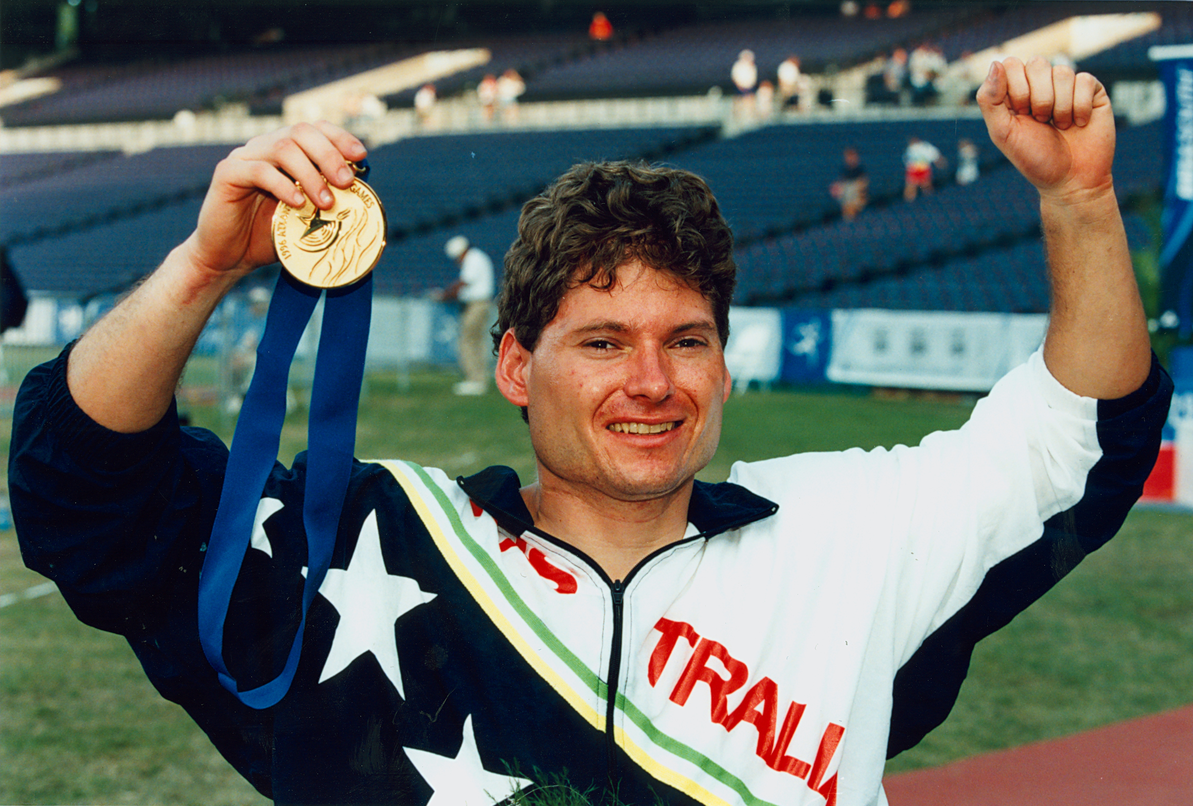 Australian athletics wheelchair gold medallist John Lindsay showing the gold medal he won in the men's T52 100m event at the Atlanta 1996 Paralympic Games.